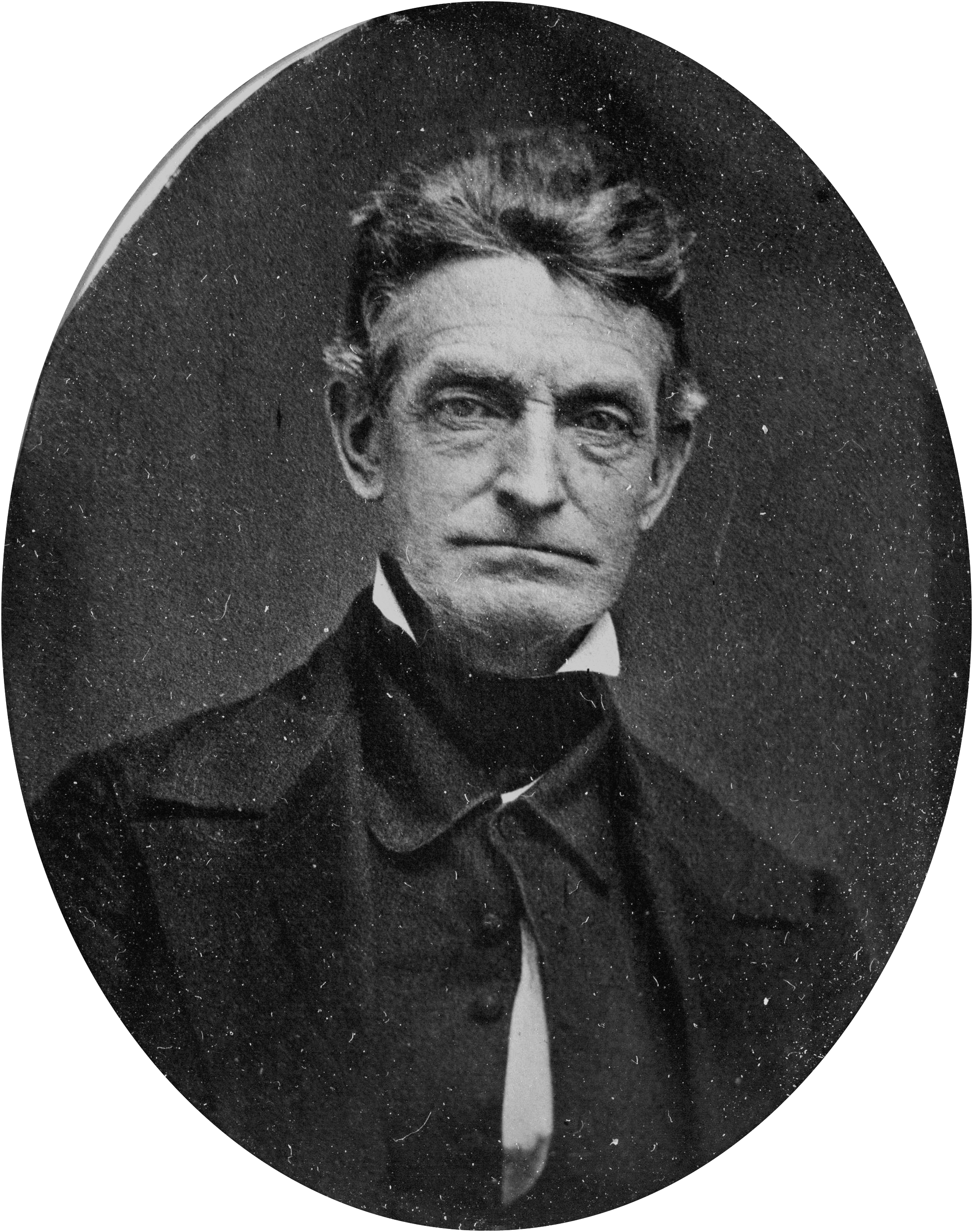 John Brown